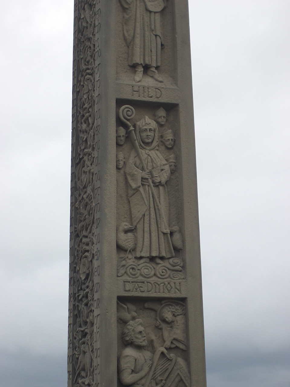 Caedmon depicted on a cross in Whitby. NB: The carving shown in the center of this photo is of St. Hilda. Part of the carving of Cædmon (holding the harp) is visible beneath her. my photo